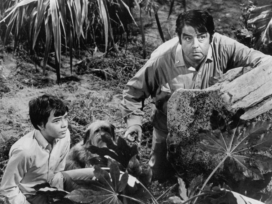 Publicity photo of television actors Stefan Arngrim and Kurt Kasznar promoting their roles on the television series Land of the Giants.